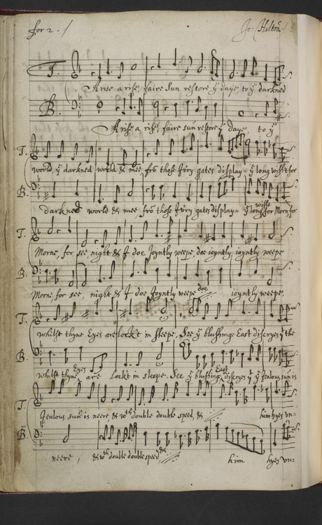 A handwritten page [folio 34v] from BL Add MS 49626, an untitled collection of songs and catches by John Hilton and others. This page contains "Arise, fair sun", by Hilton, and is in the composer's own hand. Held and digitised by the British Library.